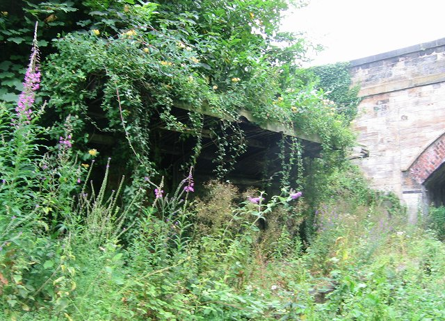 Eskbank railway station. What a city would look like 30 years after we were removed from the planet. The station is still there under buddleia and honeysuckle. Soon it may be a station again with a planned reopening of the railway.